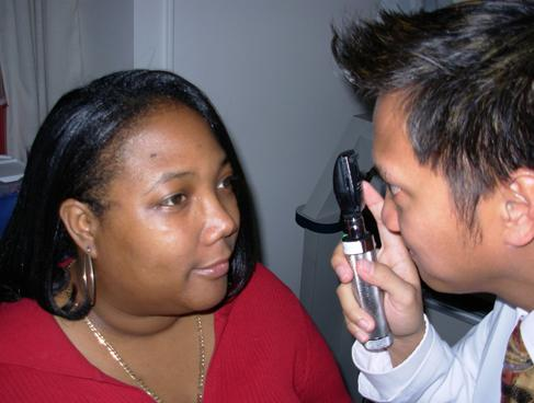 Ophthalmoscopy.